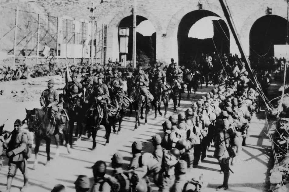 Soldiers of IJA Tenth Army are entering Nanking after its fall. December 1937